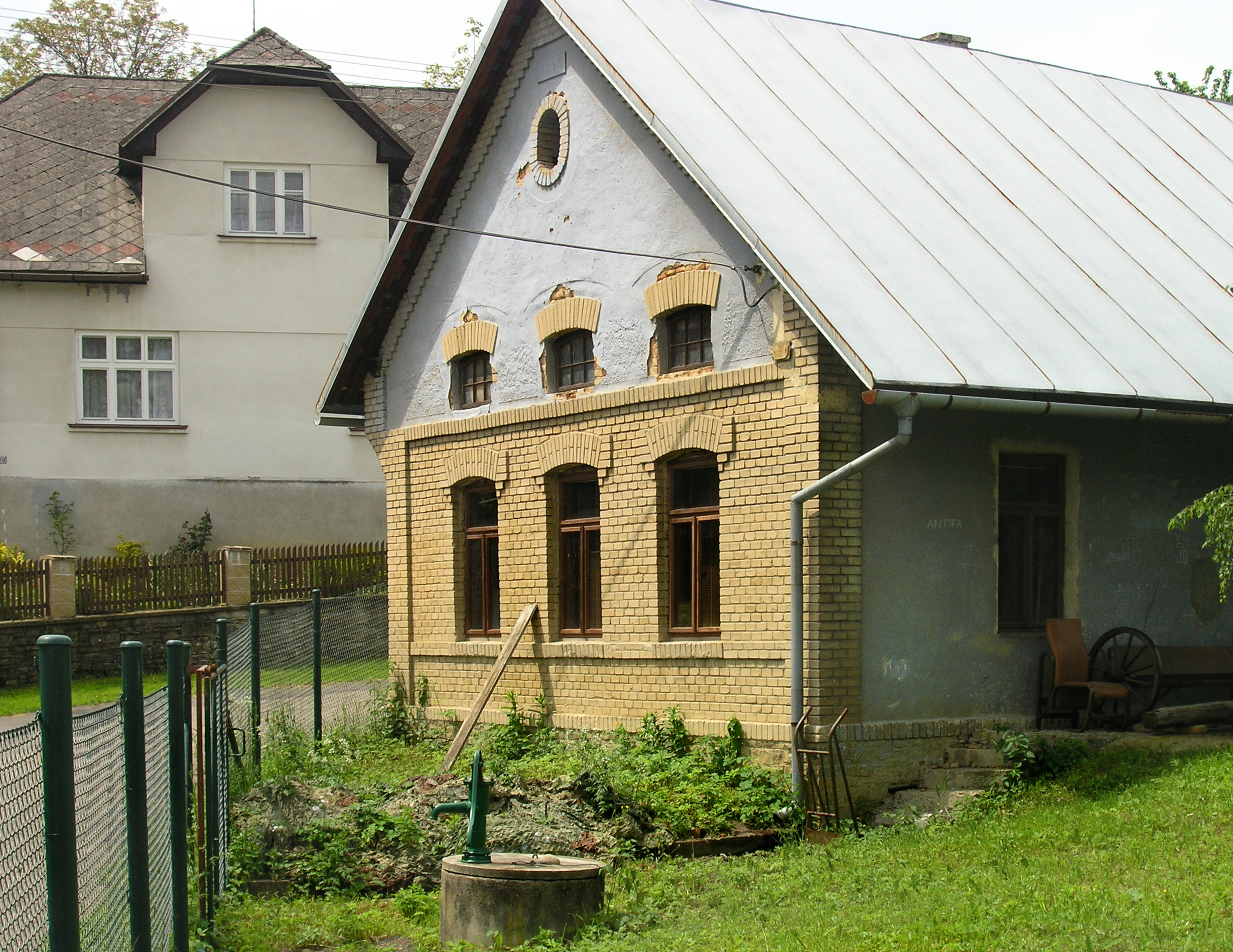 North part of Ublo village, Czech Republic